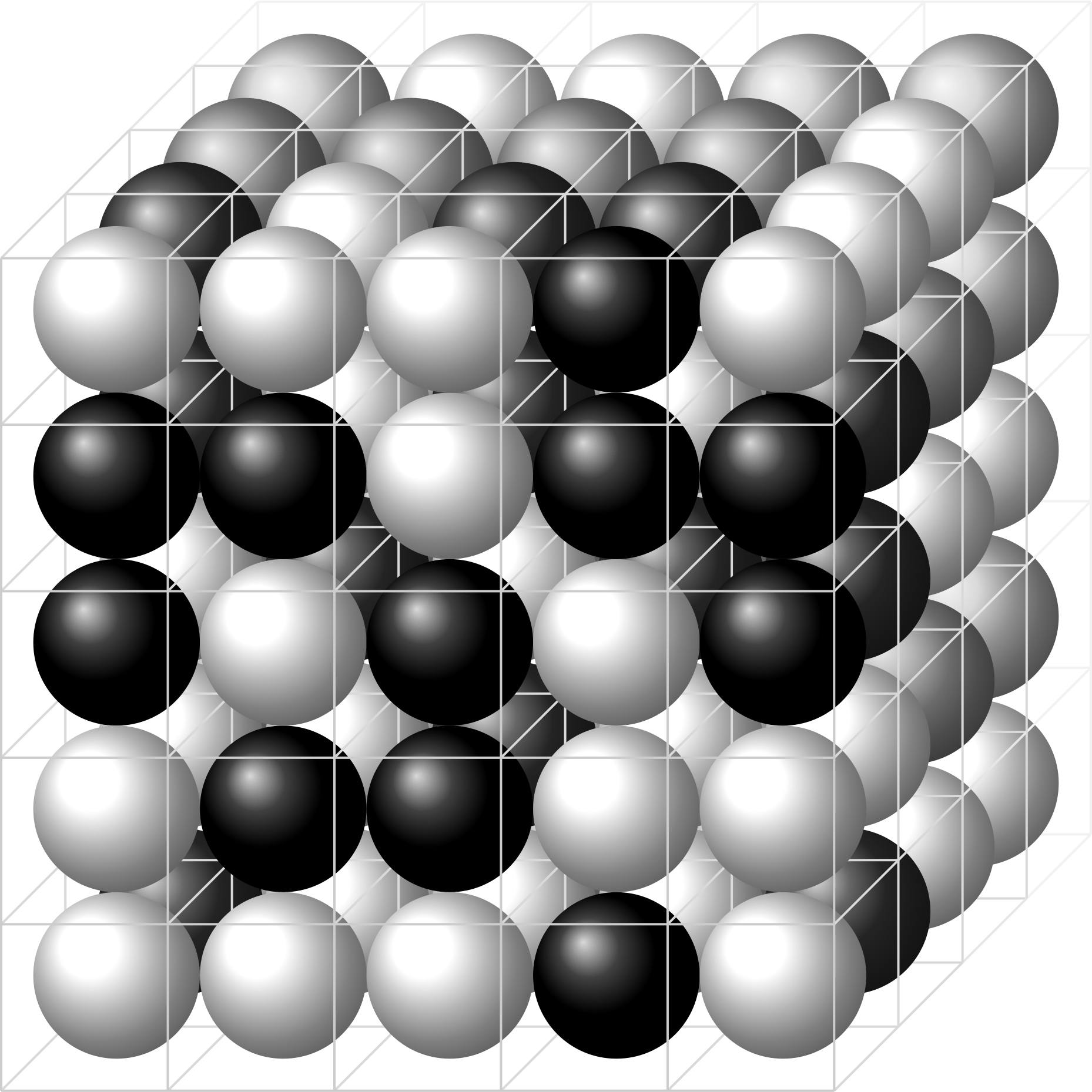 A visualization of a 3-D lattice model of a solution consisting of two molecules A and B, here shown as white and black spheres.